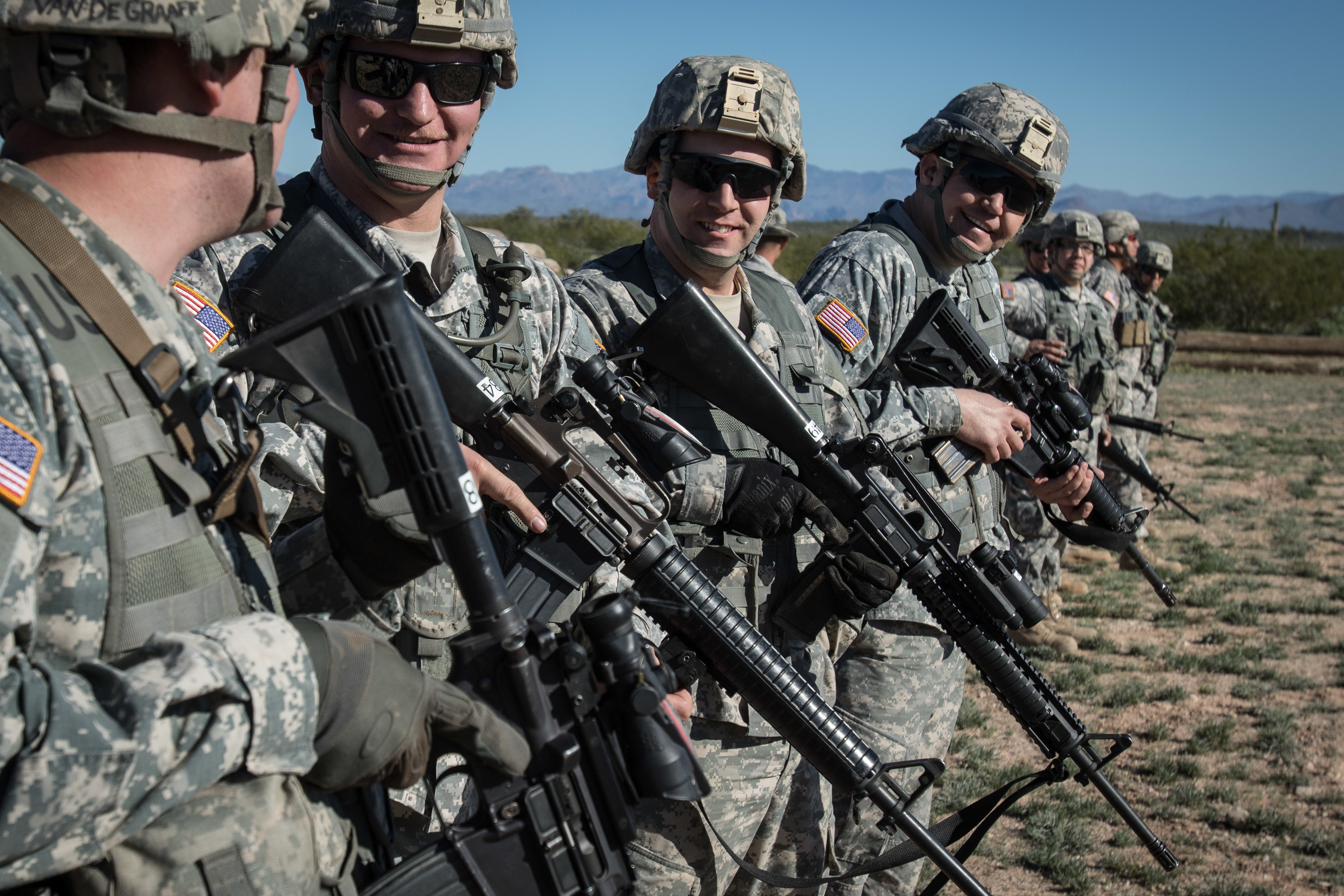 Arizona Army National Guard Soldiers from Alpha Company, 422nd Expeditionary Signal Battalion in Case Grande, get ready to compete in the infantry trophy match stage of the Arizona National Guard's Adjutant General’s Match Feb. 13, at Florence Military Reservation in Florence, Ariz. The four-day shooting competition tested the marksmanship skills of service members on three different weapons systems over eight shooting stages. (Army National Guard photo by Staff Sgt. Brian A. Barbour)